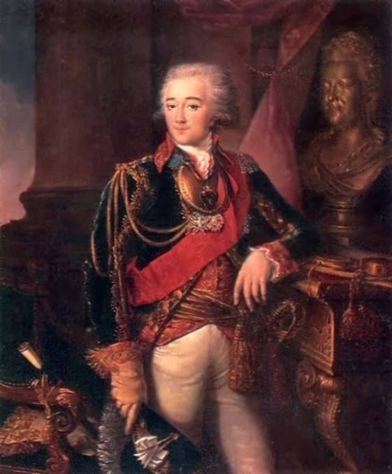 Count Dmitriev-Mamonov, Aleksandr Matveyevich (1758 - 1803) was a Russian lieutenant general and adjutant general. Portrait of Count Alexander Dmitriev-Mamonov (1802). Exhibited in the Tretyakov Gallery.